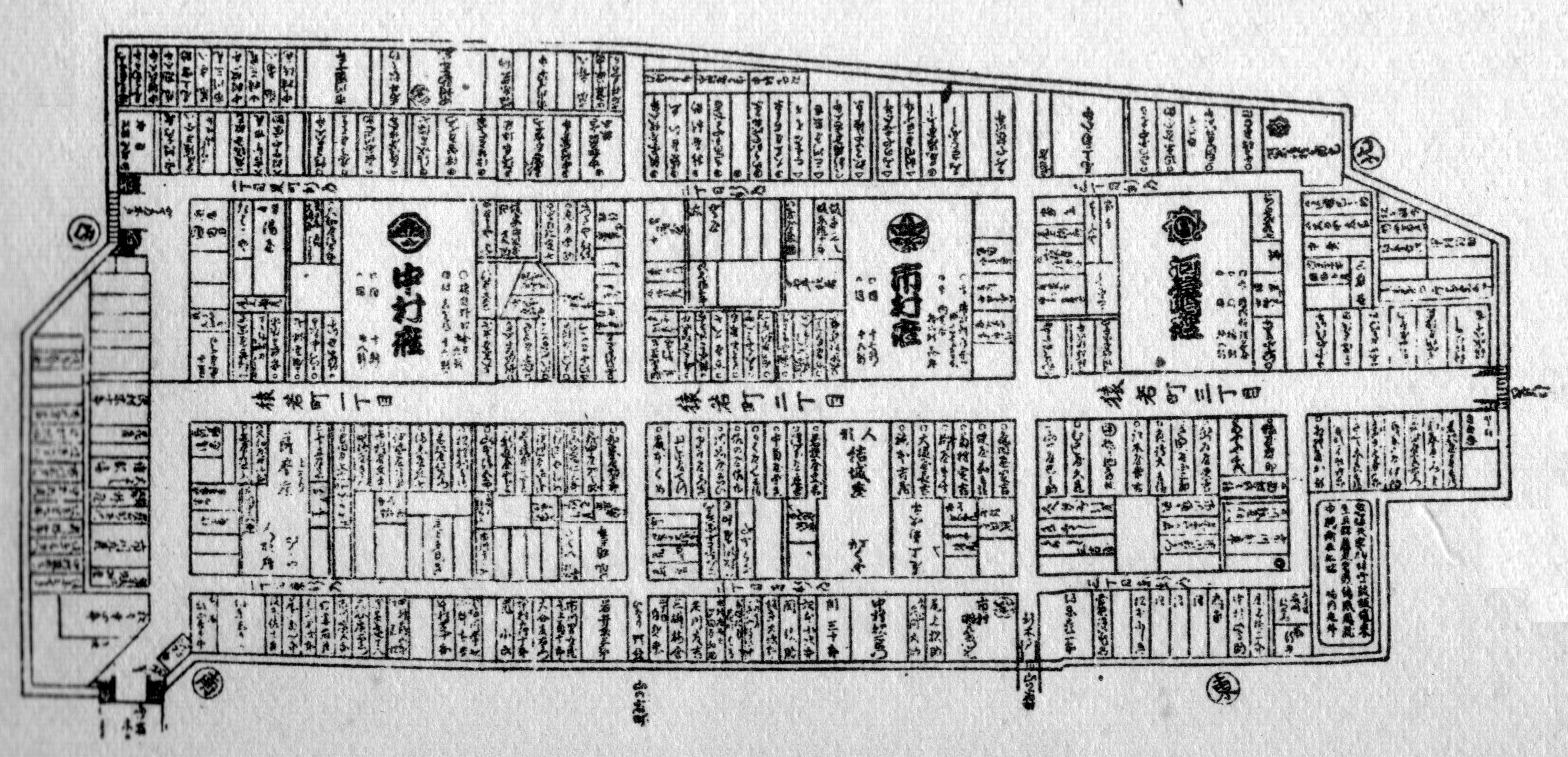 Map of Saruwaka-machi or Saruwaka-cho in Asakusa, circa 1843-1856